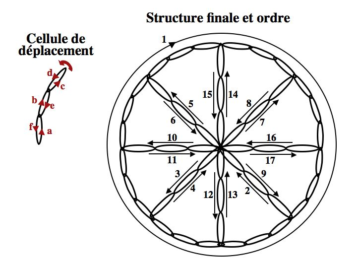 Schematic representation of Violin Phase patterns included in Fase choreography (1982) by Anne Teresa De Keersmaeker